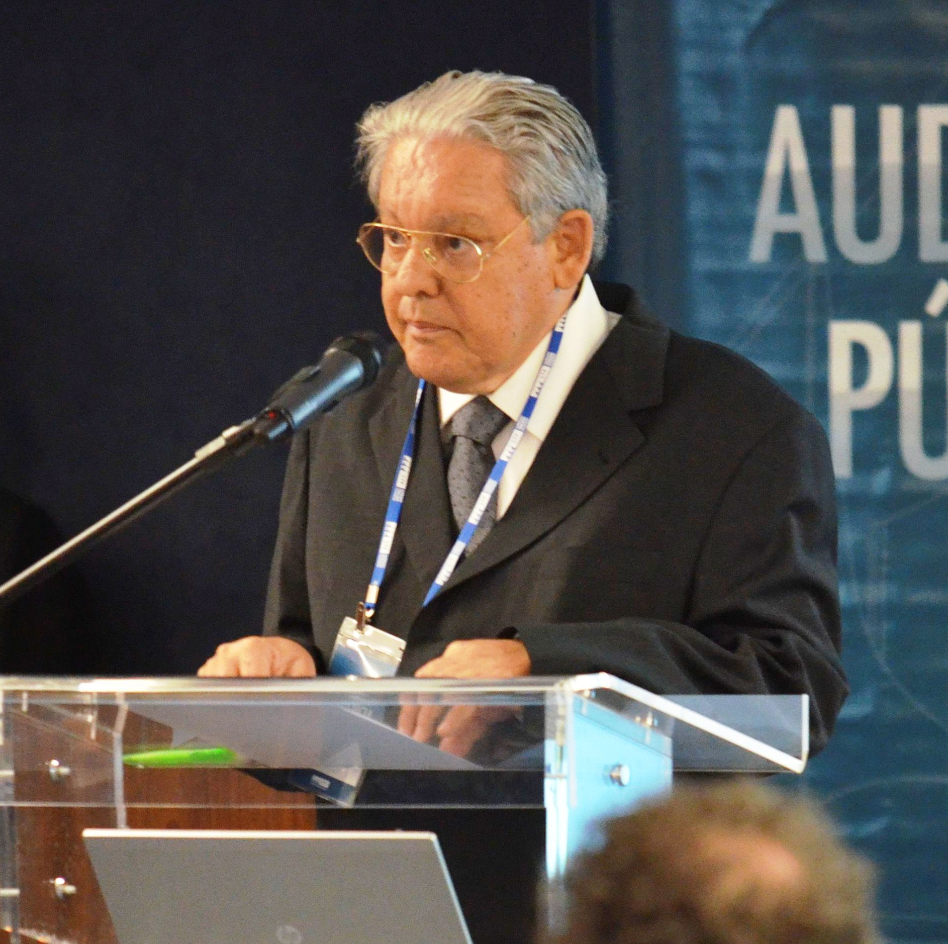 Brazilian songwriter Fernando Brant. Photo by José Cruz/Agência Brasil published under a CCBY3.0 license